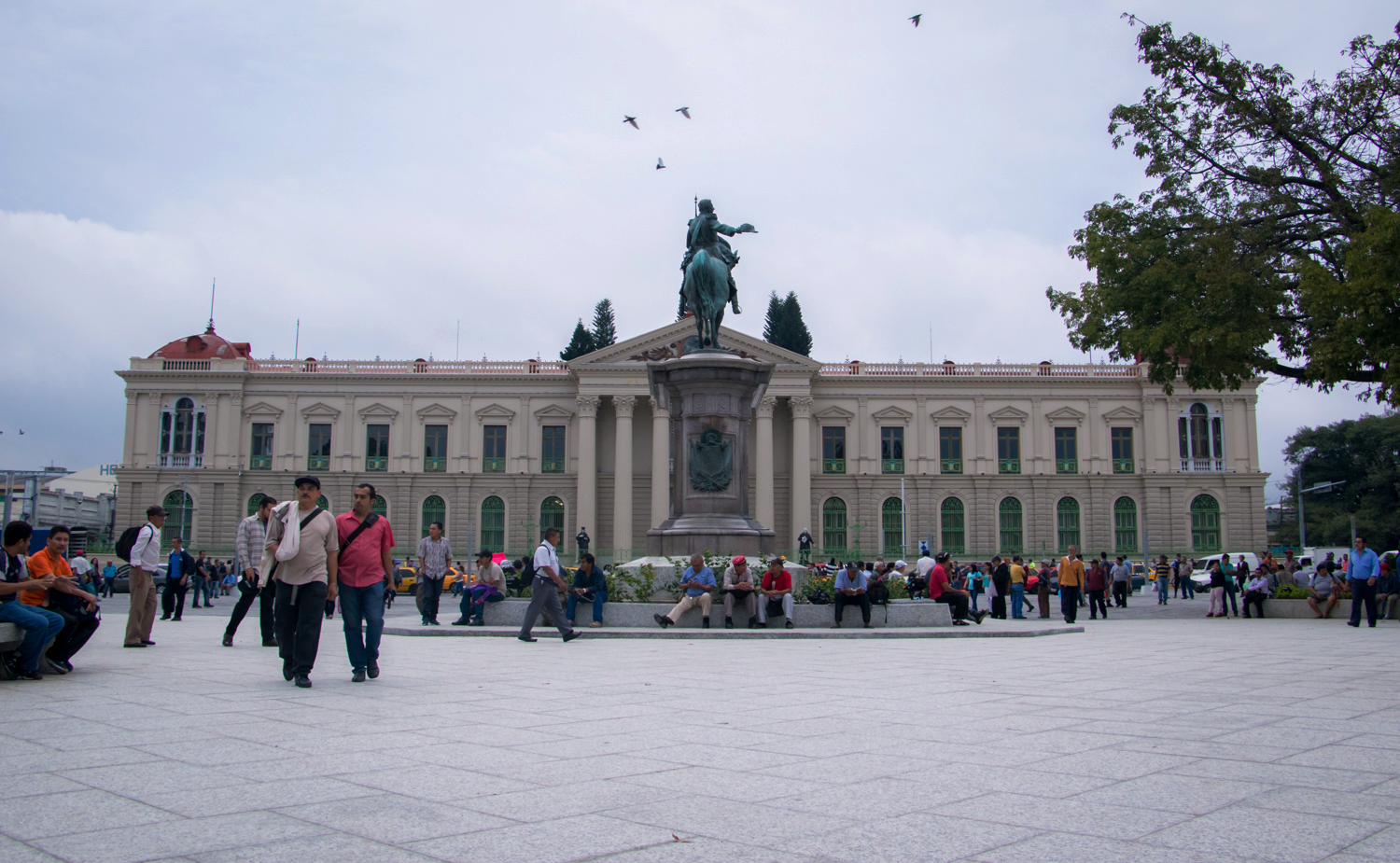 Plaza Gerardo Barrios and National Palace in the Historic Center of San Salvador.